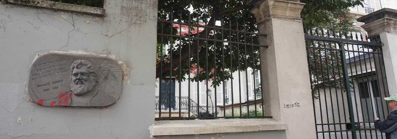 The last residence of Bernard Dimey, french poet and writer (13 rue Germain-Pilon, Paris, France)